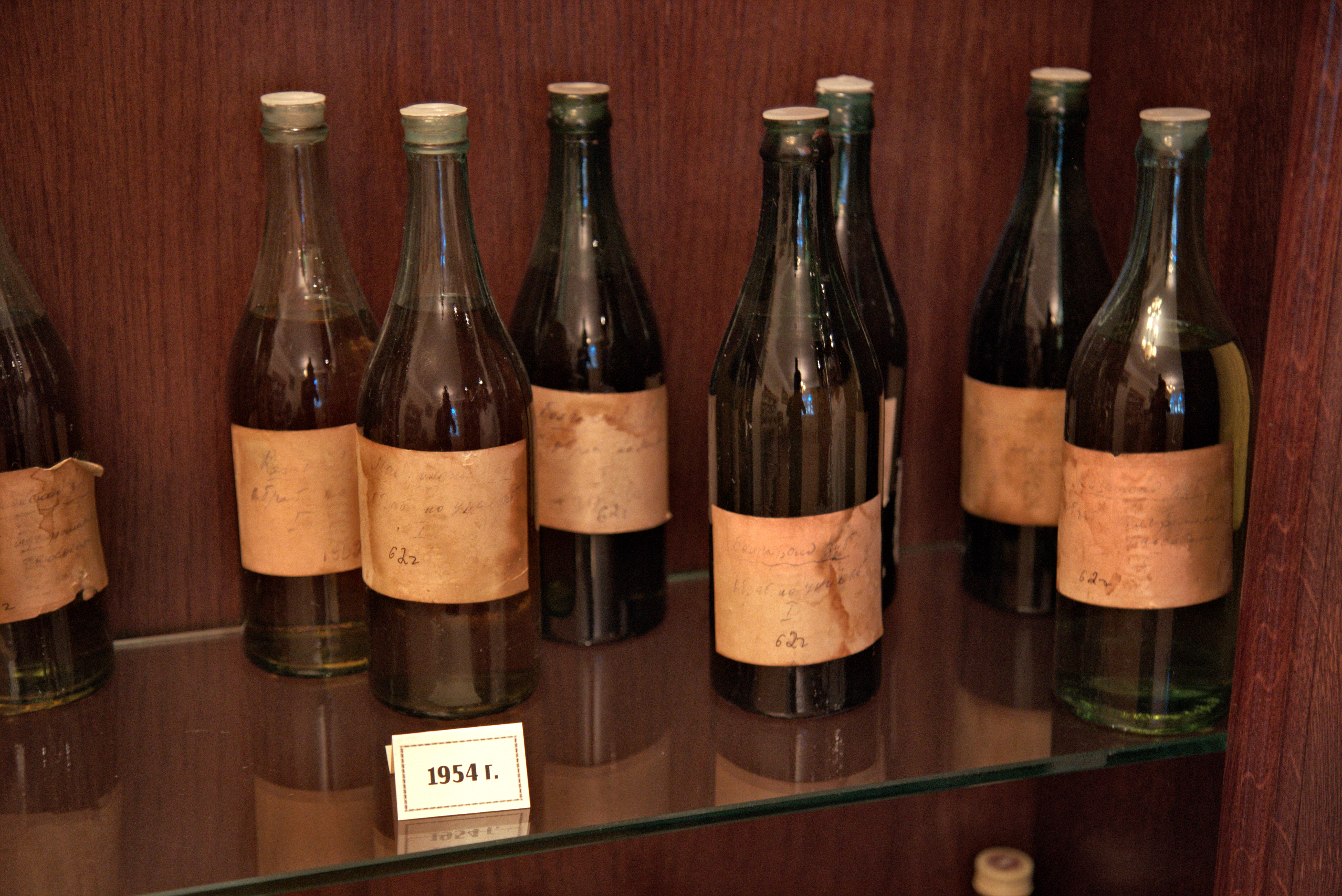 «Кизлярский коньячный завод»